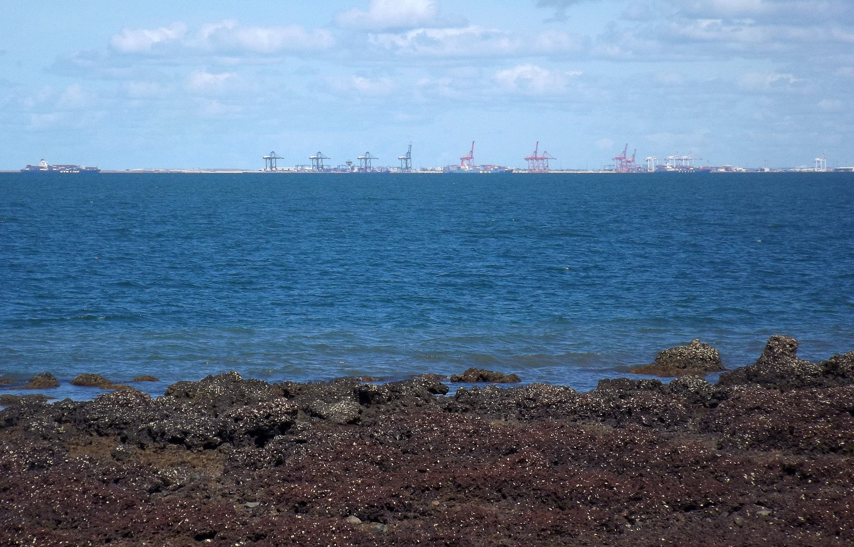 Photo of the Port of Brisbane seen from Redcliffe, Moreton Bay Region, Queensland, Australia.